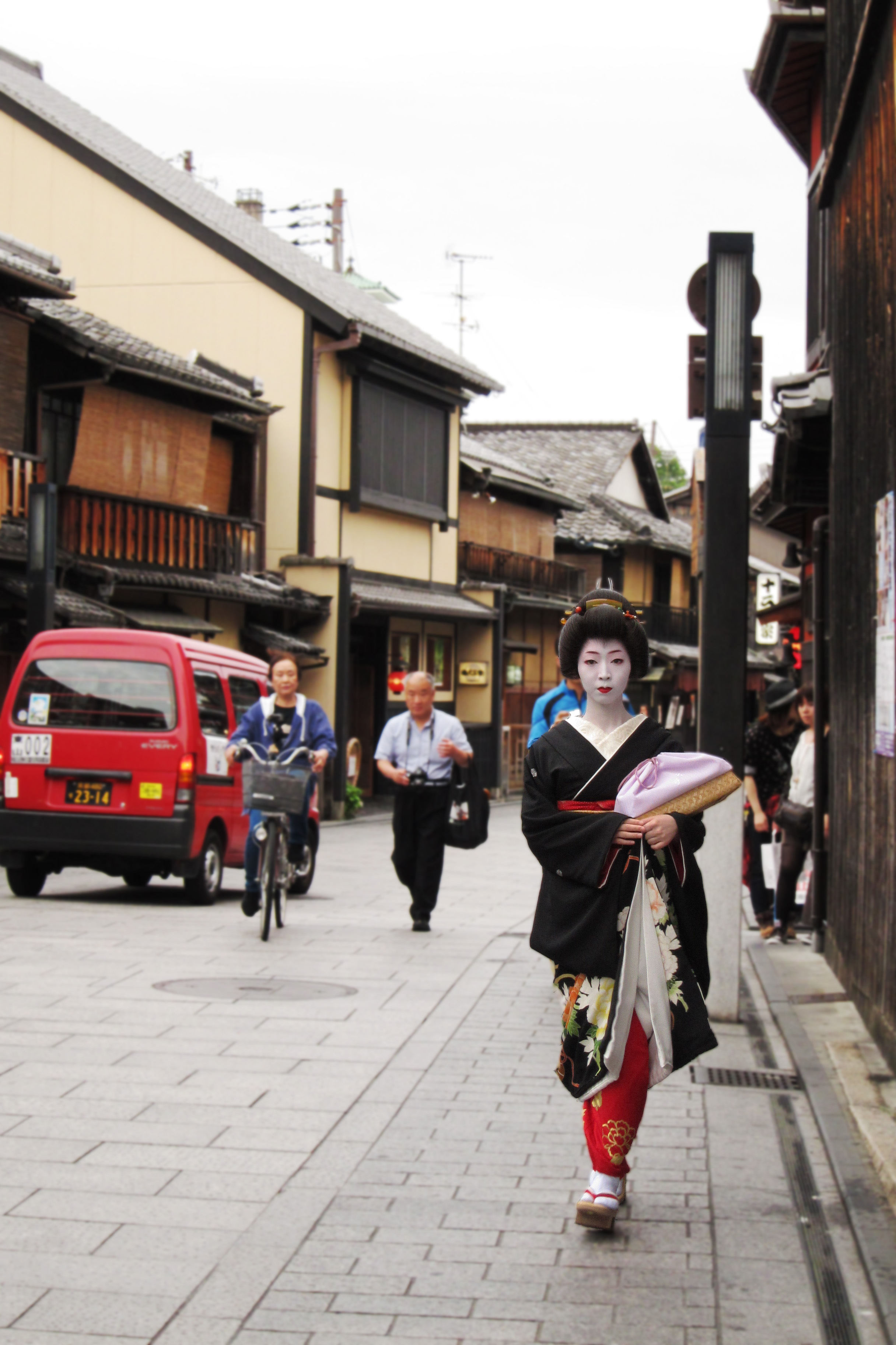 Geiko Kosen on her third day after erikae or geisha debut (of Hiroshimaya okiya, Gion Kôbu)